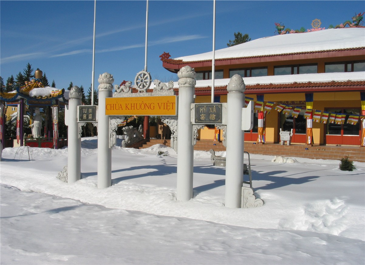 The only Buddhist temple in Norway, located at Løvenstad (Rælingen). Taken by me on March 25, 2006.